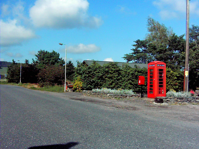 Communicate Post box & telephone box in Colpy.